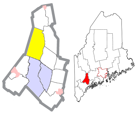 Map of the divisions of Androscoggin County, Maine, United States, with the town of Turner highlighted in yellow. The cities of Auburn and Lewiston are light blue; other towns are white; and pink areas are census-designated places within towns.